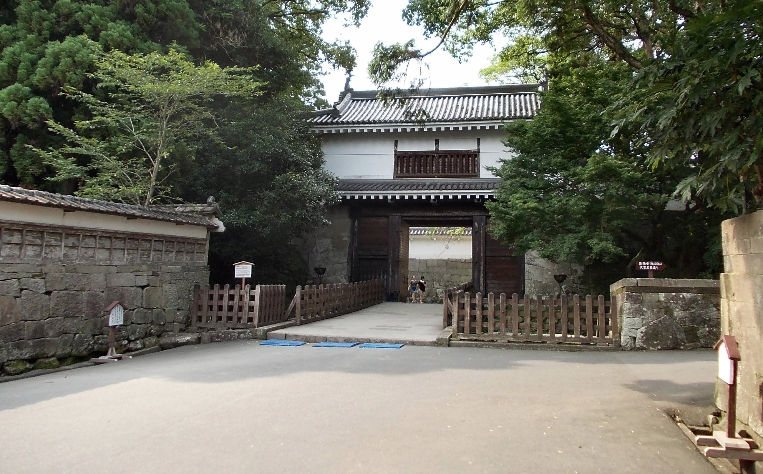 Obi Castle, Nichinan, Miyazaki, Japan